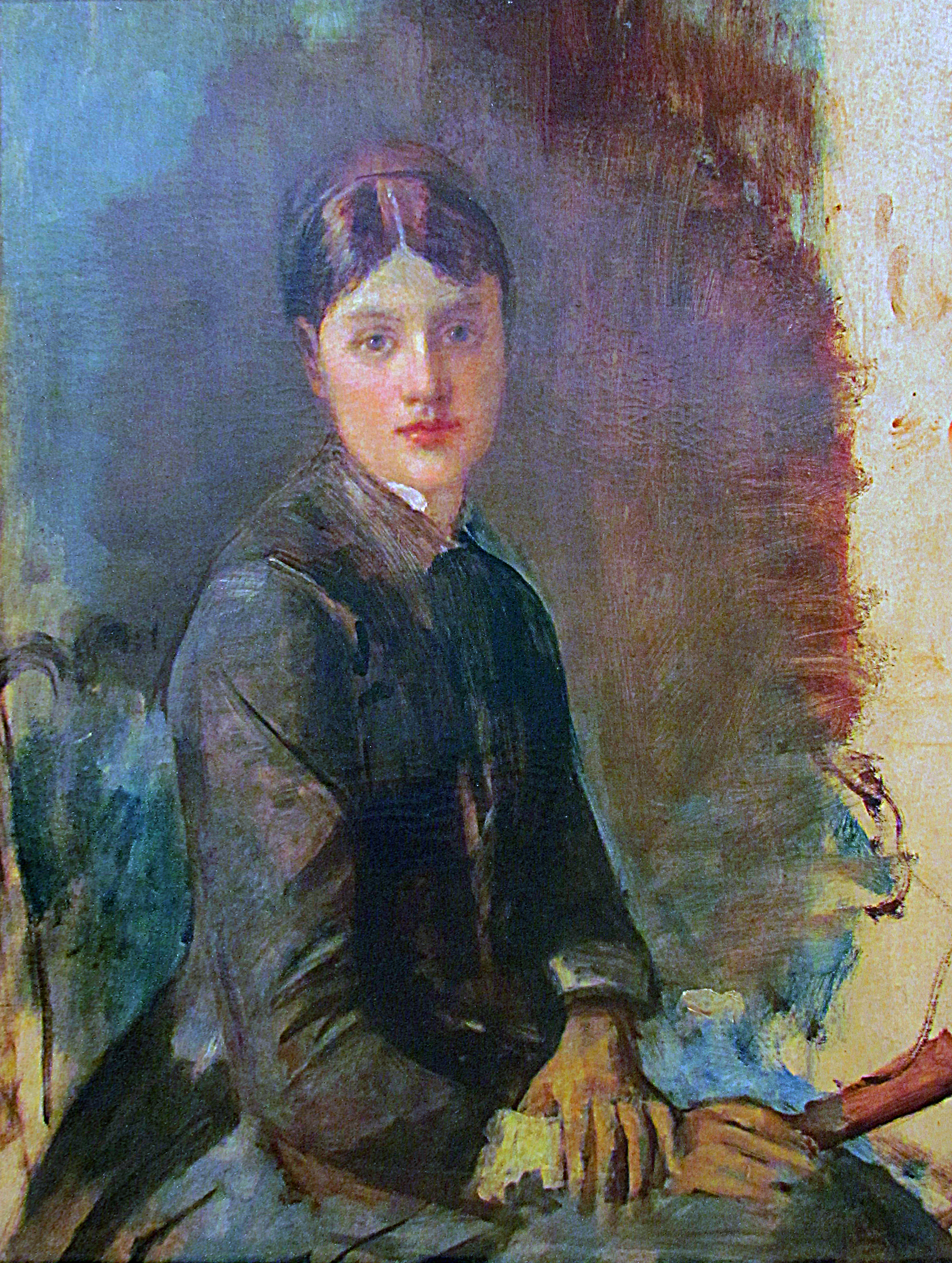 Henri de Toulouse-Lautrec, Portrait of a young woman, 1883, National Museum of Serbia